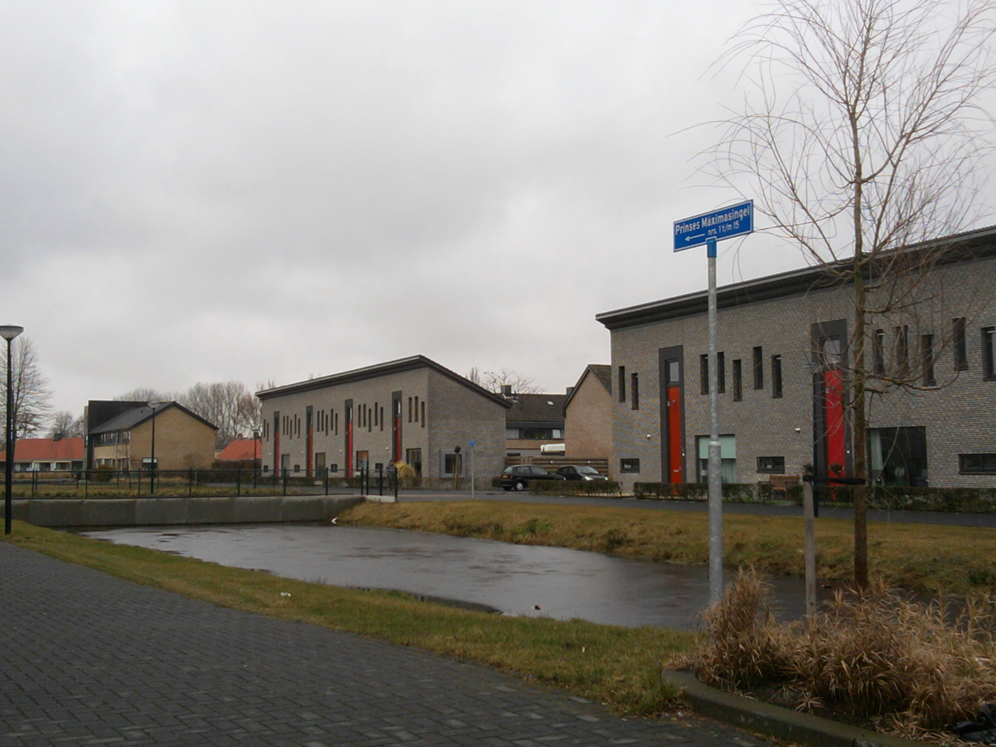 Town of Joure, Zuiderveld, street of Prinses Máximasingel.